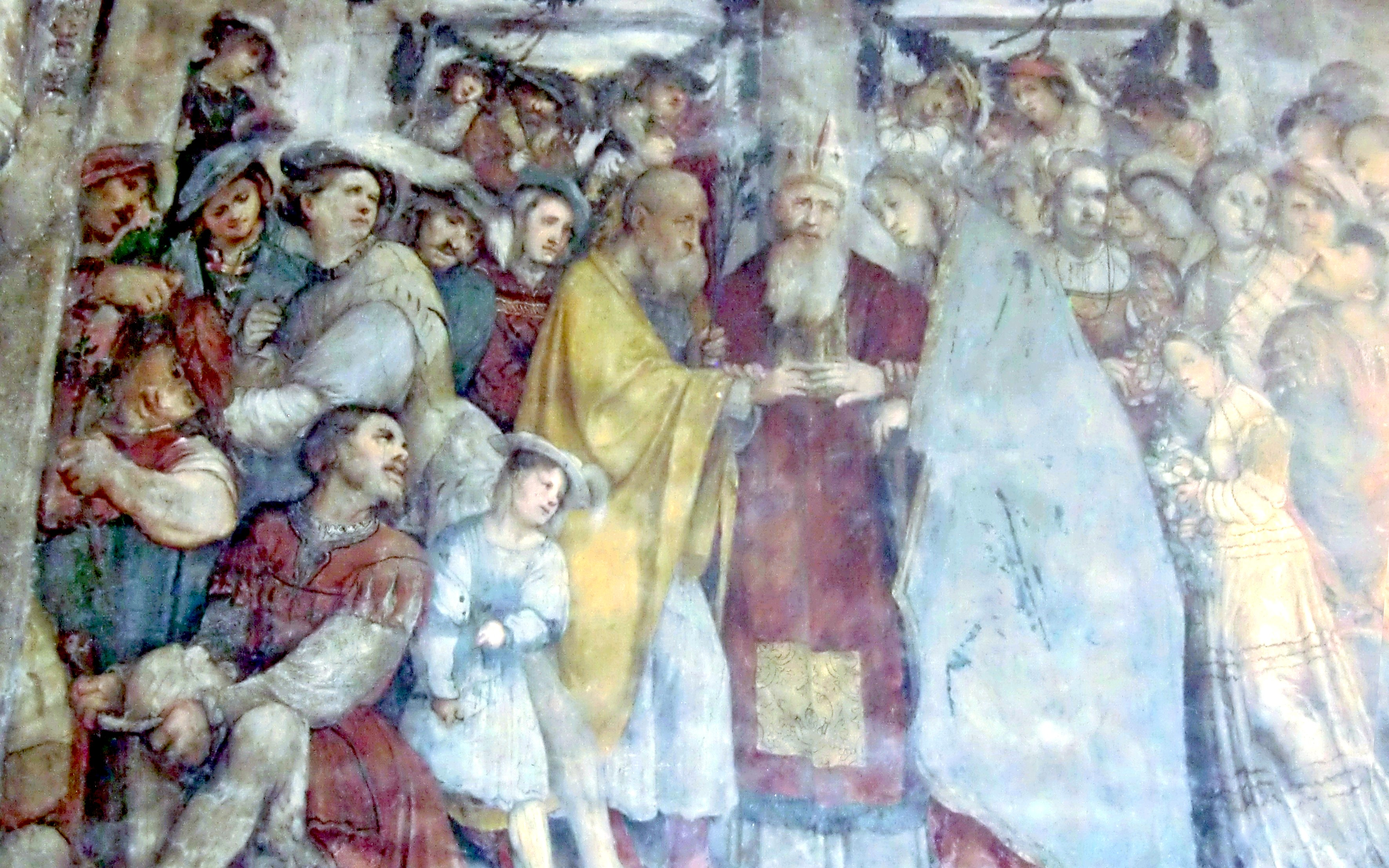 Romanino, Marriage of the Virgin, fresco, 1540, Chiesa di Santa Maria Annunciata, Bienno (BG), Italy